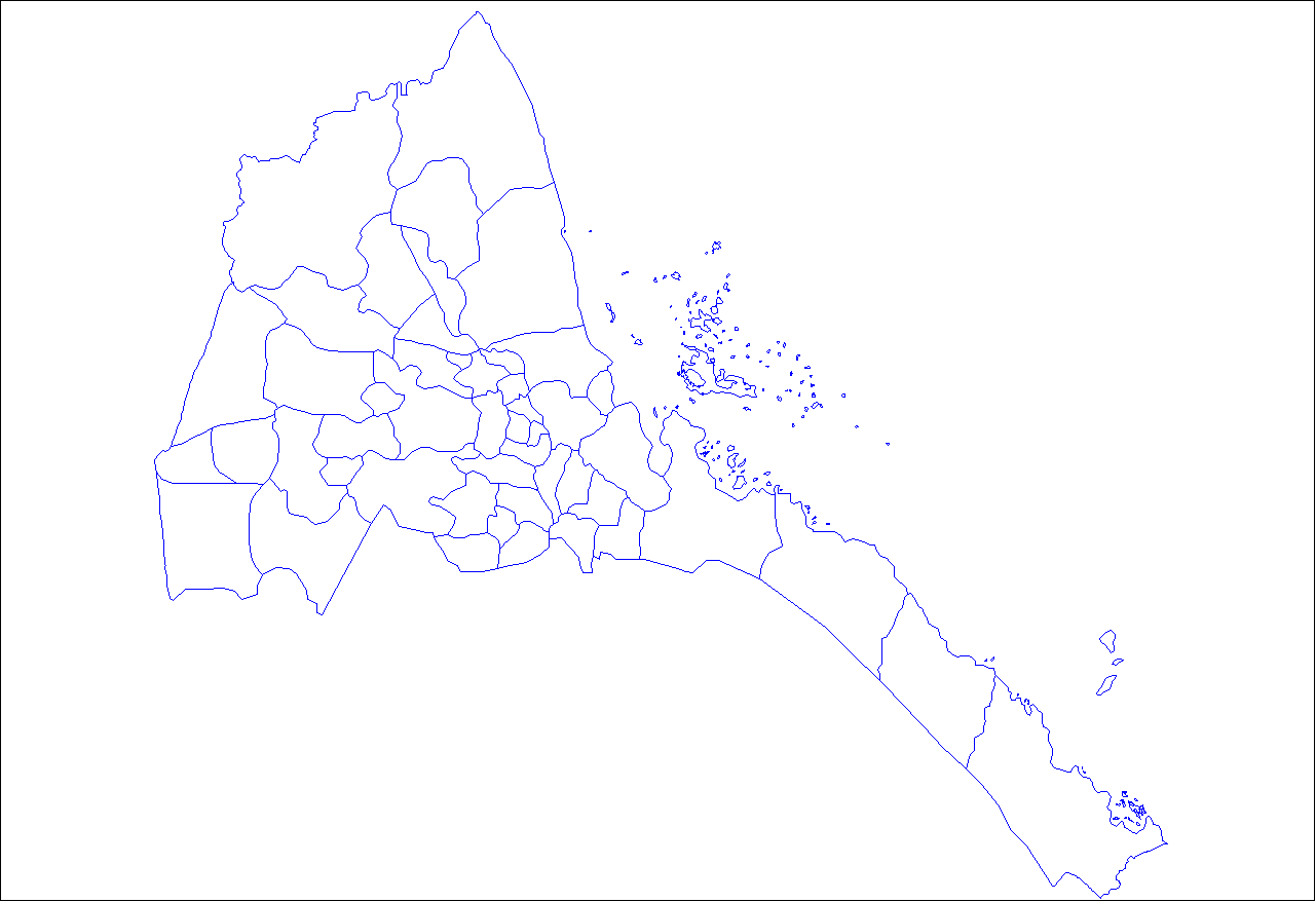 Map of the districts of Eritrea. Created by Rarelibra 19:03, 11 April 2007 (UTC) for public domain use, using MapInfo Professional v8.5 and various mapping resources.